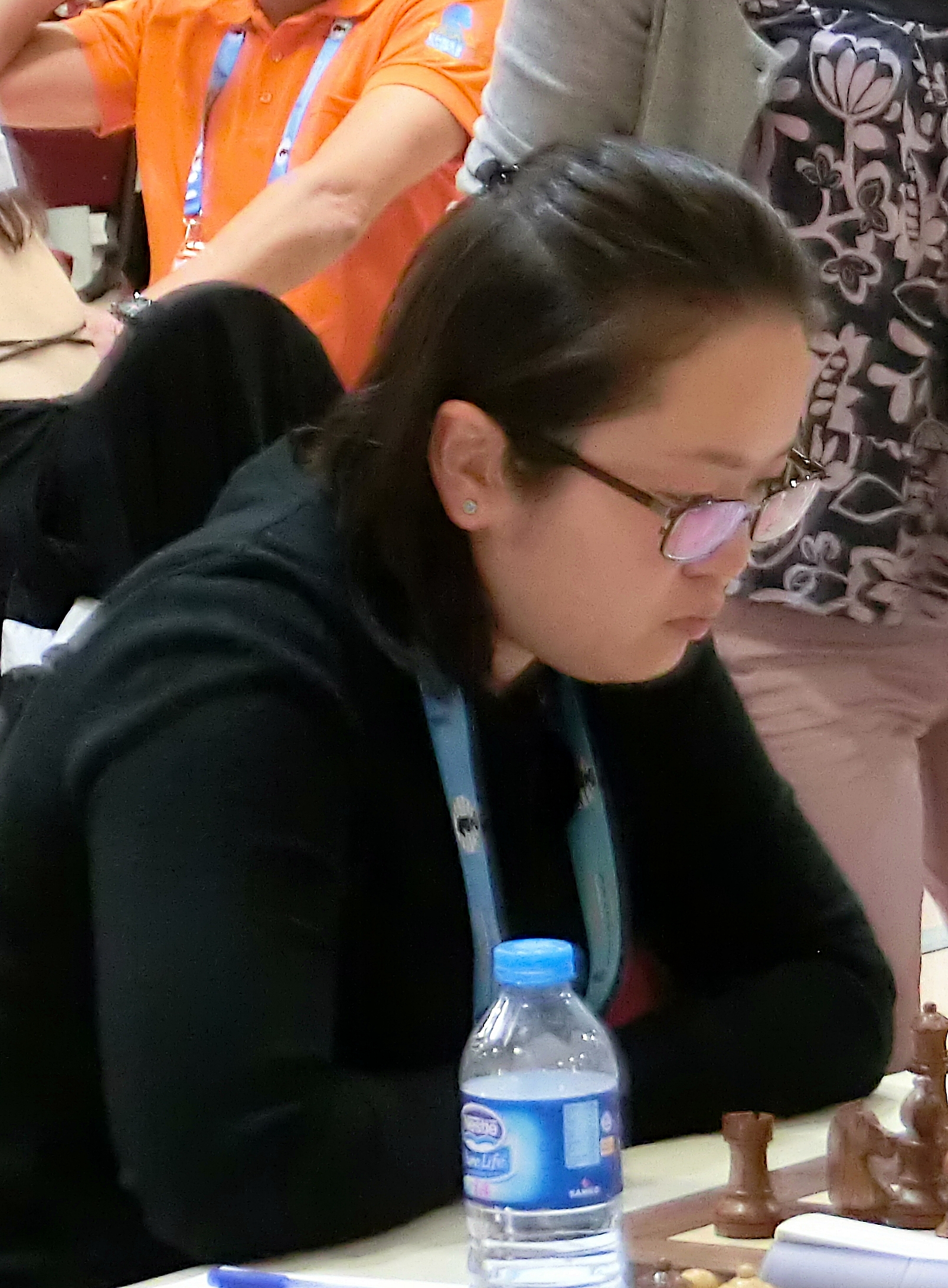 Batkhuyag Munguntuul, chess player from Mongolia